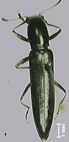 Genus/species: Acropteroxys gracilis (Newman) Captured at Québec City (Canada), 13 july 2005 Author: Pierre-Marc Brousseau (Trépas)